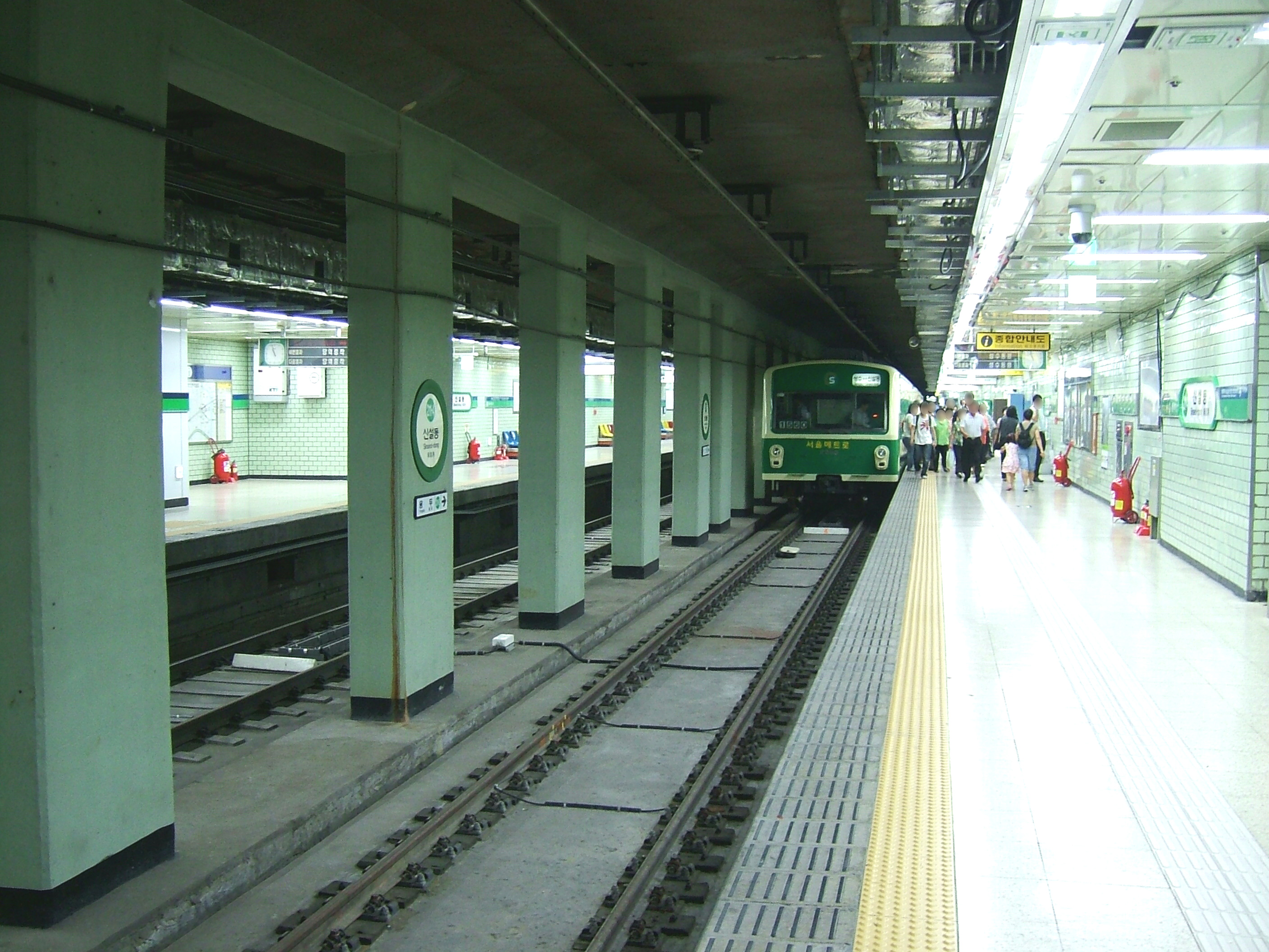 The platforms at Sinseol-dong Station, Seoul Subway Line 2